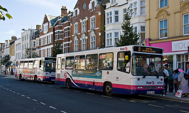 Collecting Passengers on Pier Avenue Pier Avenue is effectively a bus station. A brace of First Essex buses collect passengers for Hatton and Jaywick. The bus closest is First Essex 47225 (M225 VWW), a Dennis Dart/Alexander Dash on route 8.